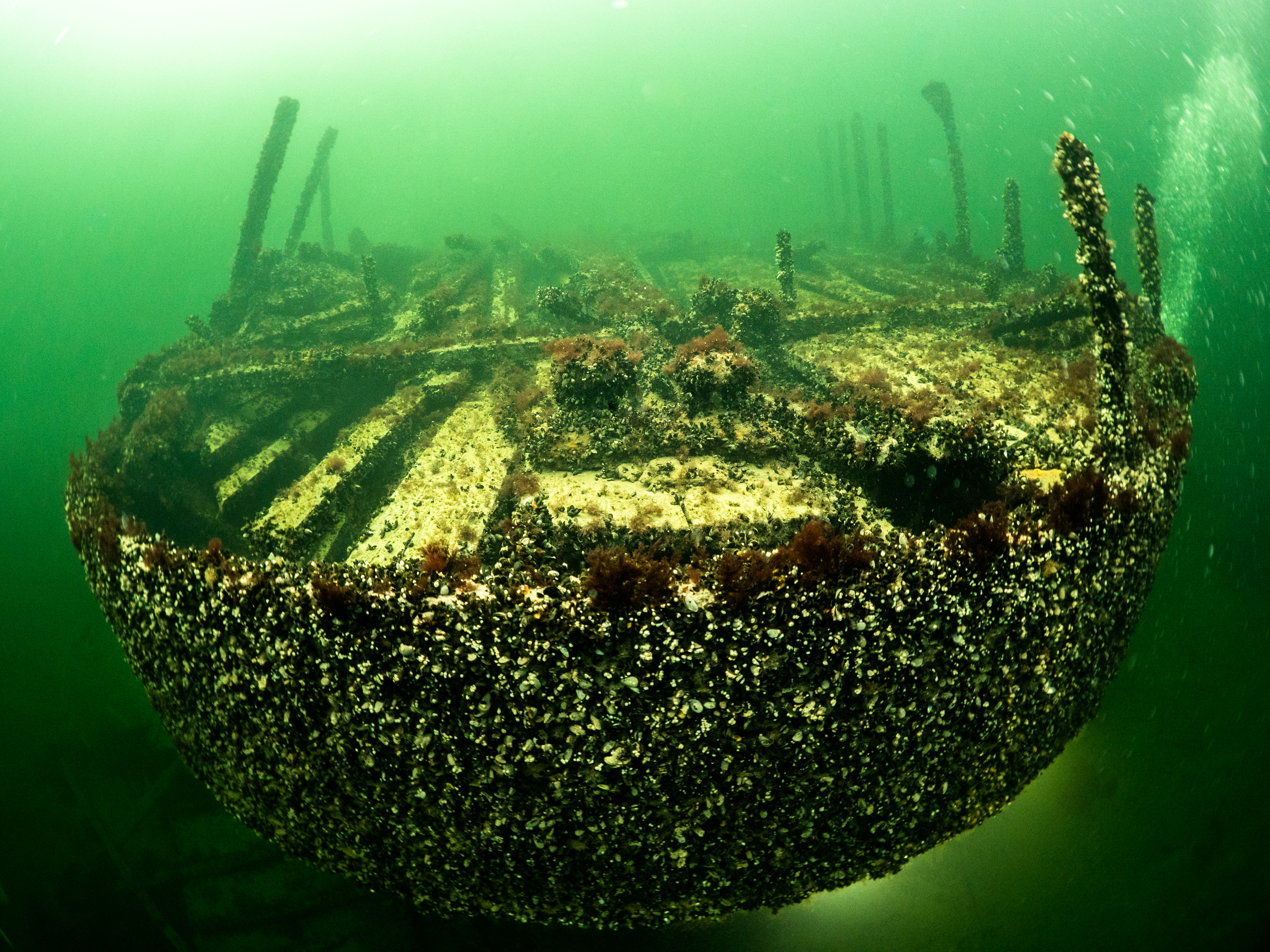 The wreck Fylgia of Huvudskär Under water pic.